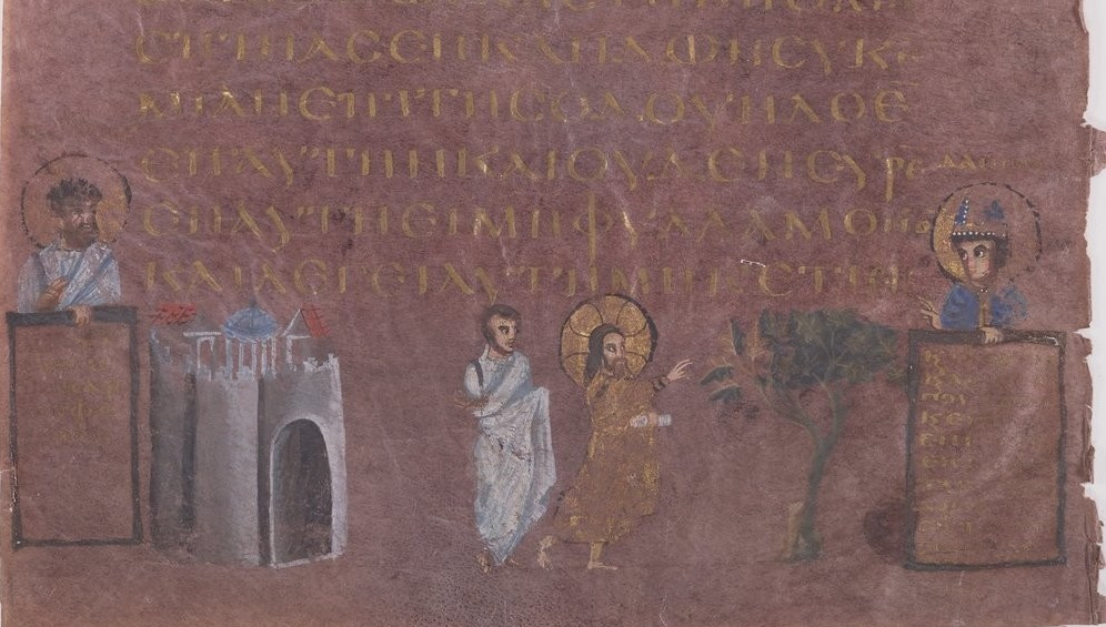 Sinopensis f30v